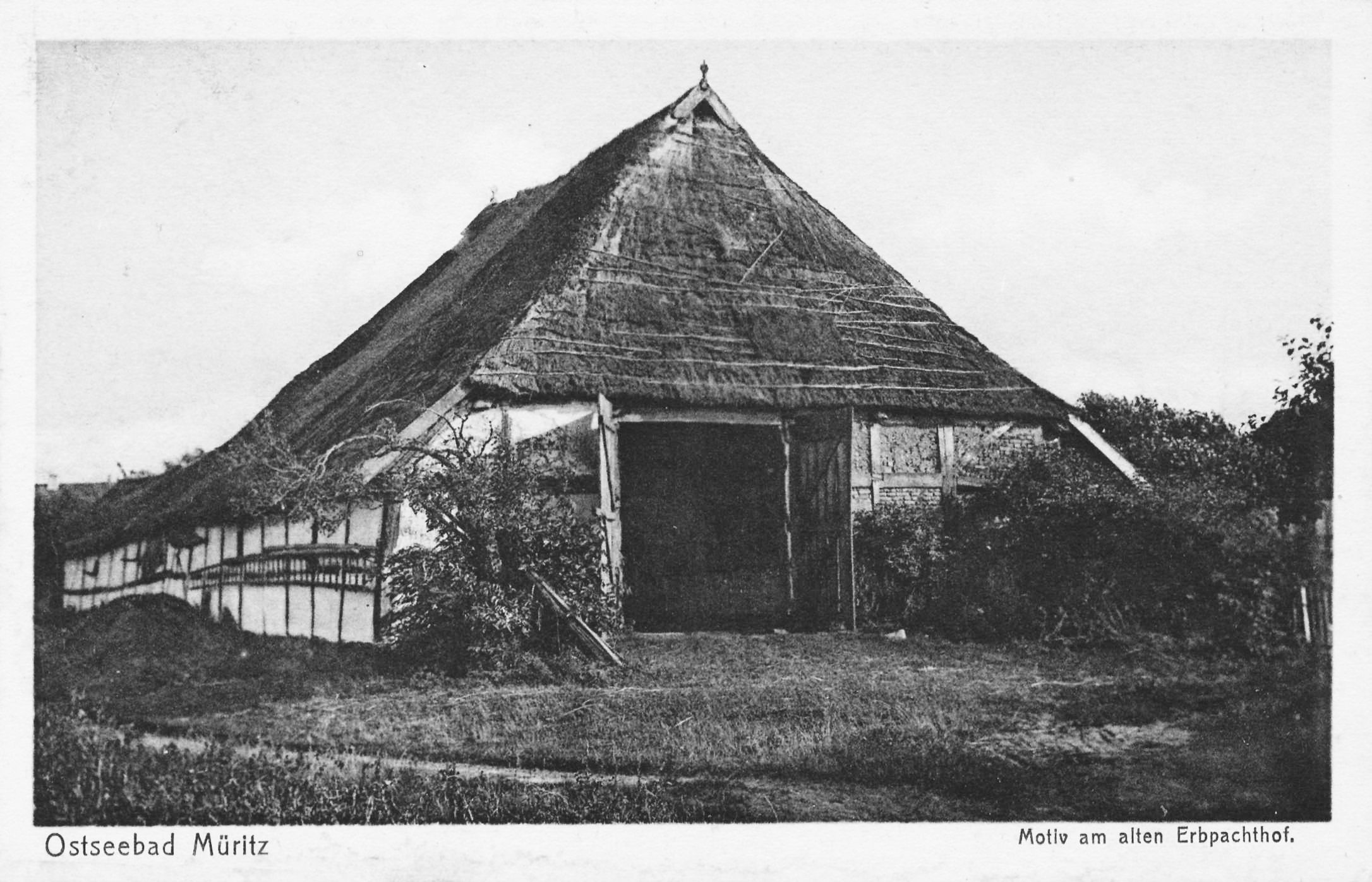 barn of a fee farm, emphyteusis farm in Graal-Müritz, Mecklenburg, Germany (1900)